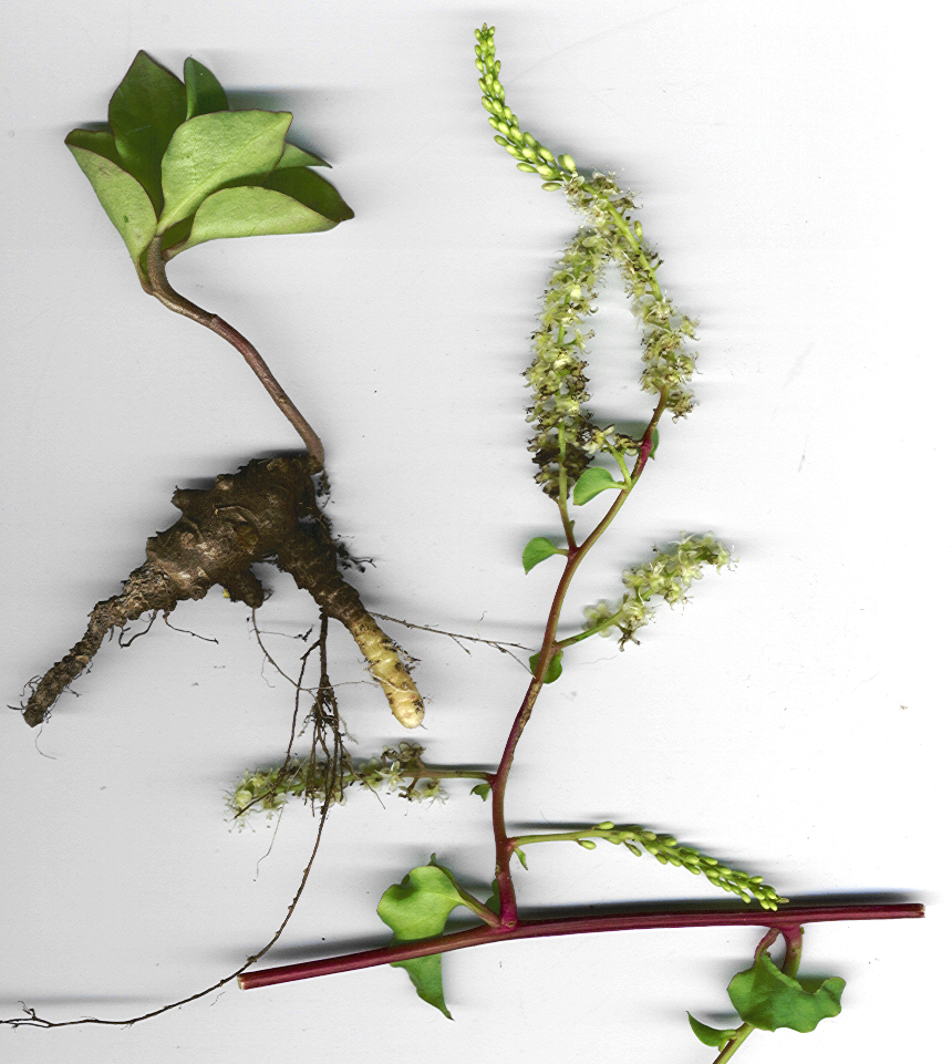 Anredera cordifolia (tubers and flowers). Location: Maui, Makawao